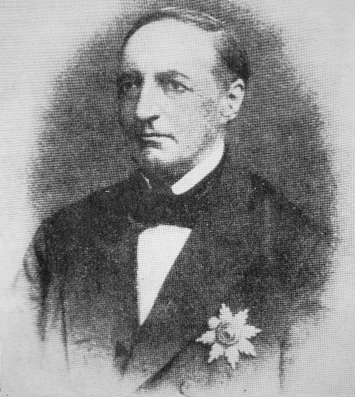 Photography of Georg Bacmeister (1807-1890), Minister of the Kongdom of Hannover.